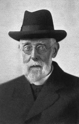 Charles Gore (1853-1932)